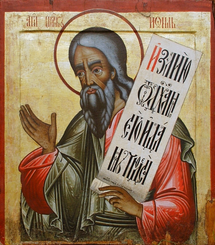 Prophet Joel, Russian icon from first quarter of 18th cen.